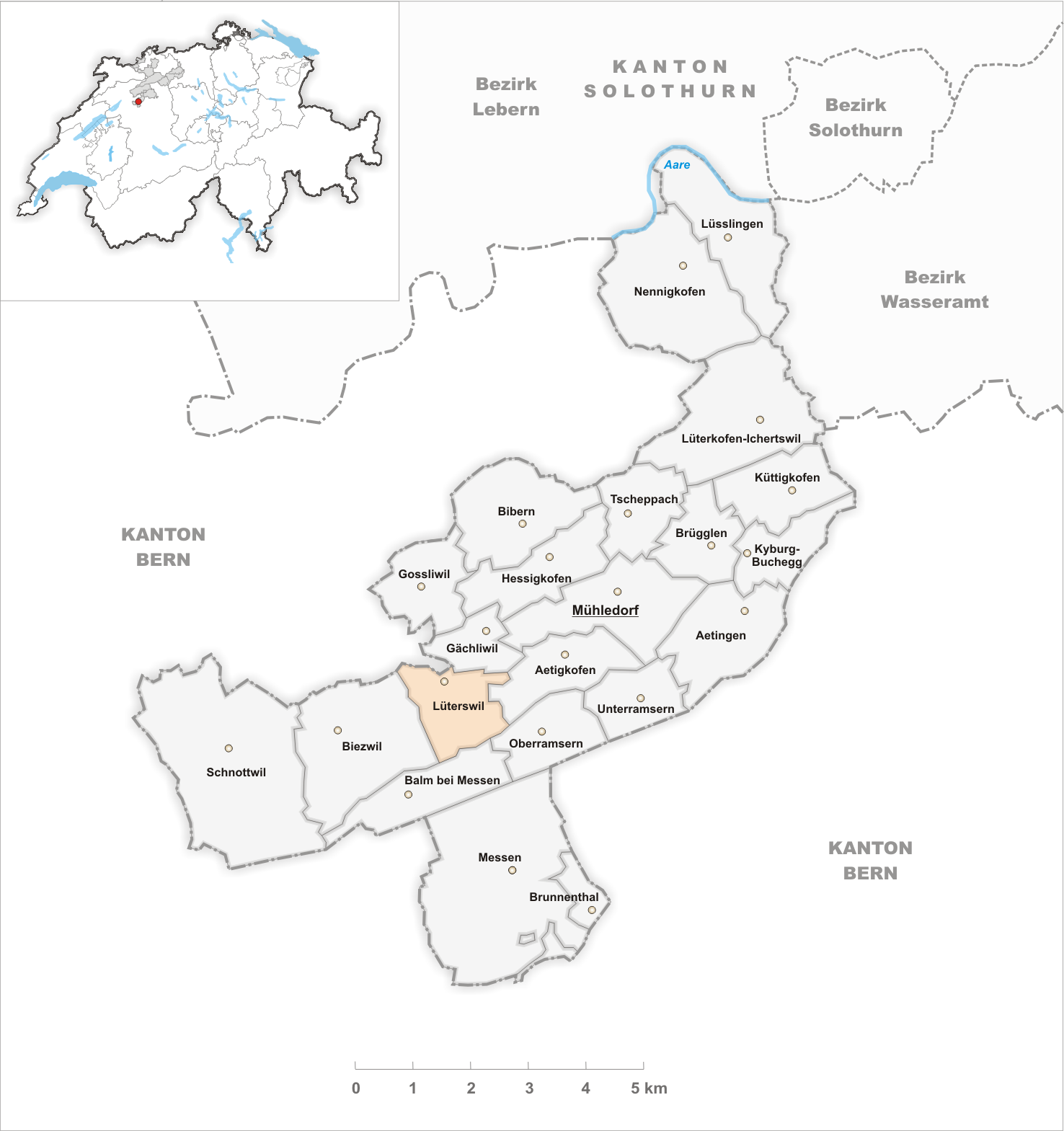 Municipality Lüterswil Artist: Tschubby